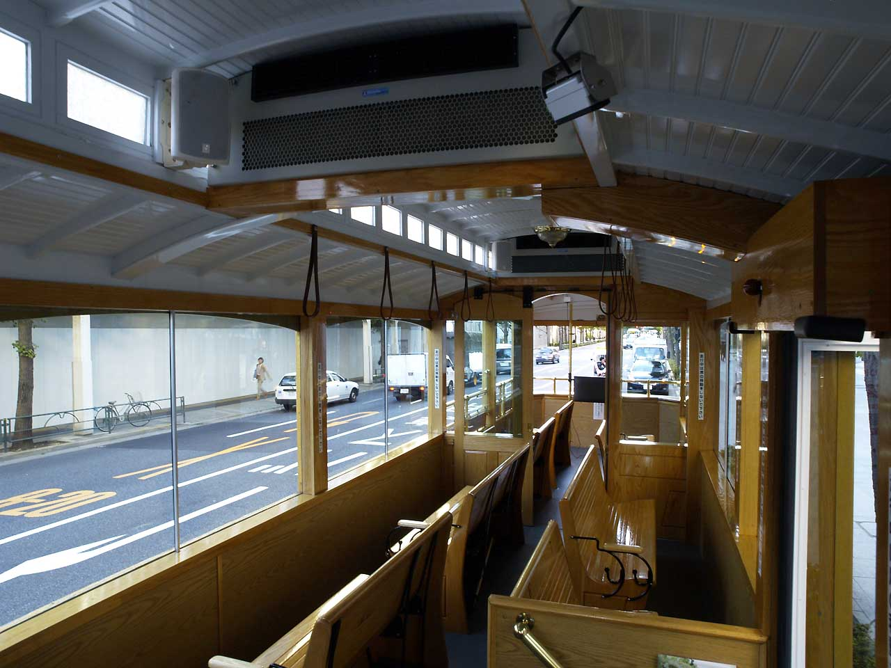 Cabin of Classic Sky Bus Tokyo, wooden seats equipped.